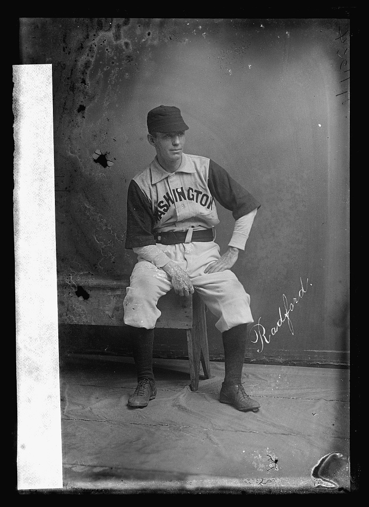 Paul Revere Radford in Washington Nationals uniform photographed by C. M. Bell Studio